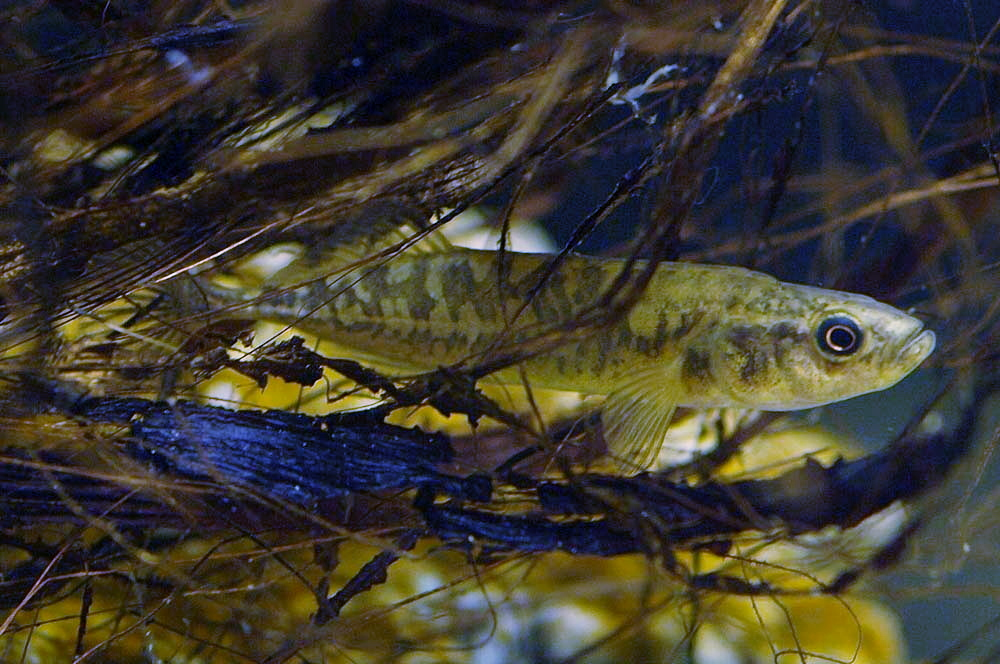 Sakhalin stickleback (Pungitius tymensis) (Nikolskii, 1889) from SUMA AQUALIFE PARK, Kobe, Japan